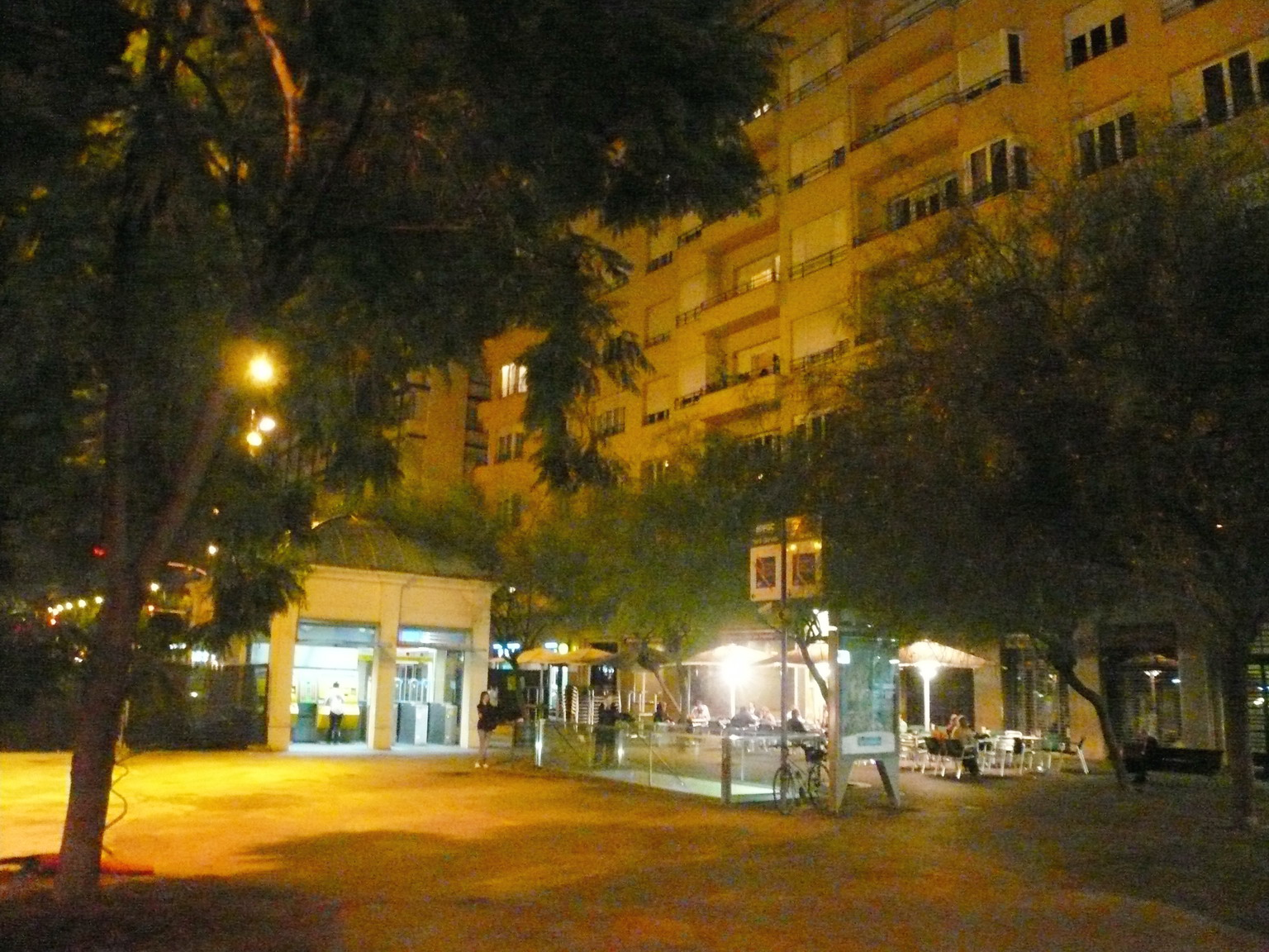 Plaça Molina, Barcelona, at night